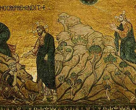 The Prayer in the Garden of Olives